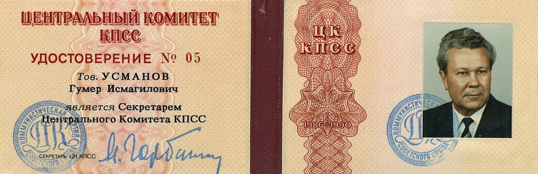 Identity card of a republican-level secretary